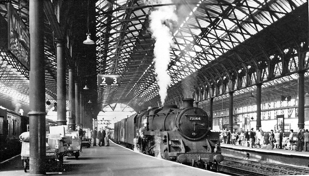 Manchester Exchange Station, with train. View westward, along Platforms 2/3, as the Up freight (photographed a few minutes before - SJ8398 : Eastbound freight entering Manchester Exchange Station) proceeds eastwards; locomotive BR Standard 5MT (Caprotti-fitted) No. 73144).